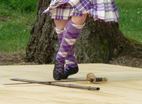 One of the competitors in the Highland dance competition at the 2007 Tacoma Highland Games demonstrates her footwork in the sword dance. This shot shows the implements used in this particular dance as well as the dancing ghillies footwear worn by the dancers.